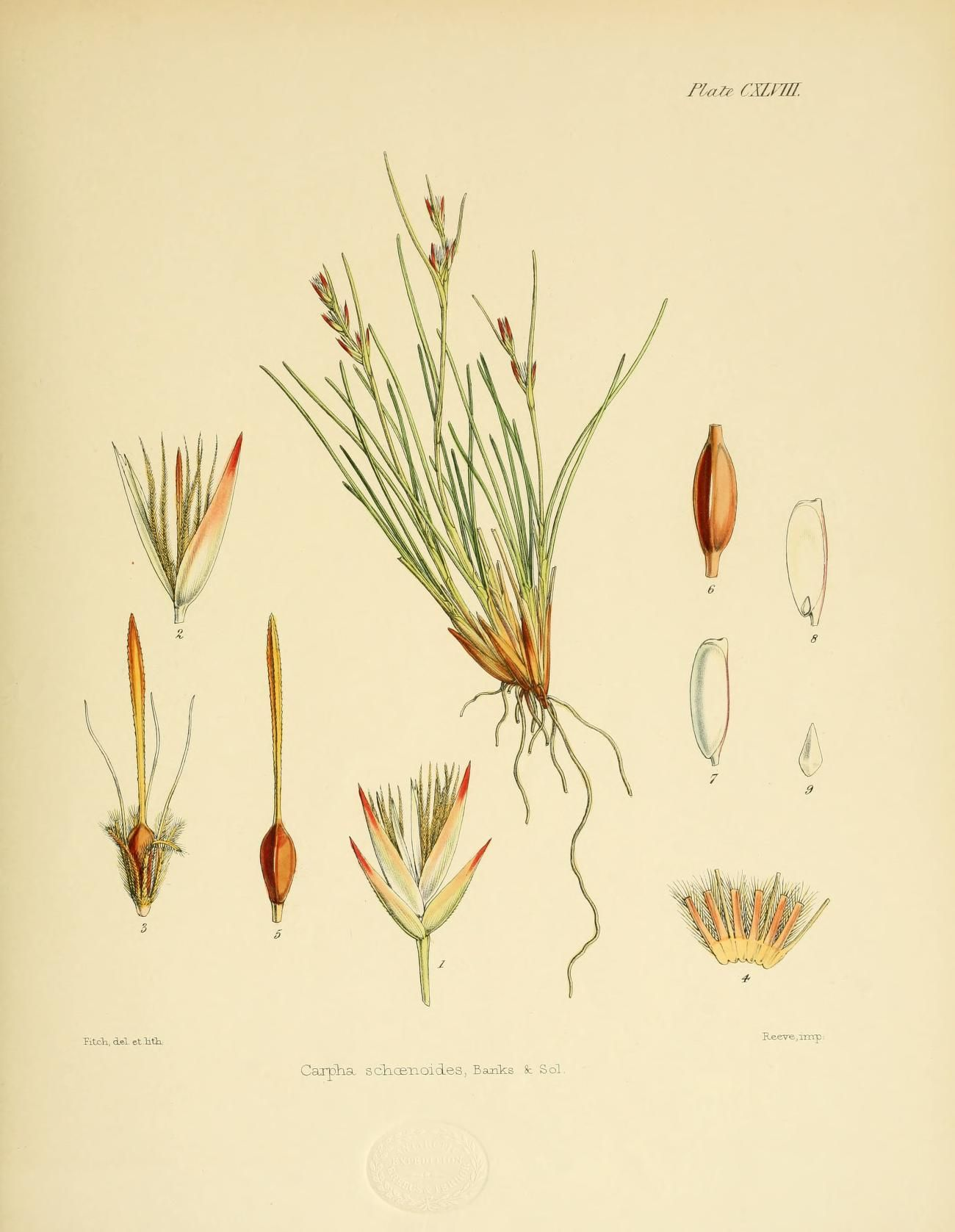 jpg of Plate CXLVIII of Hooker's Flora Antarctica. Carpha schoenoides Banks & Sol.